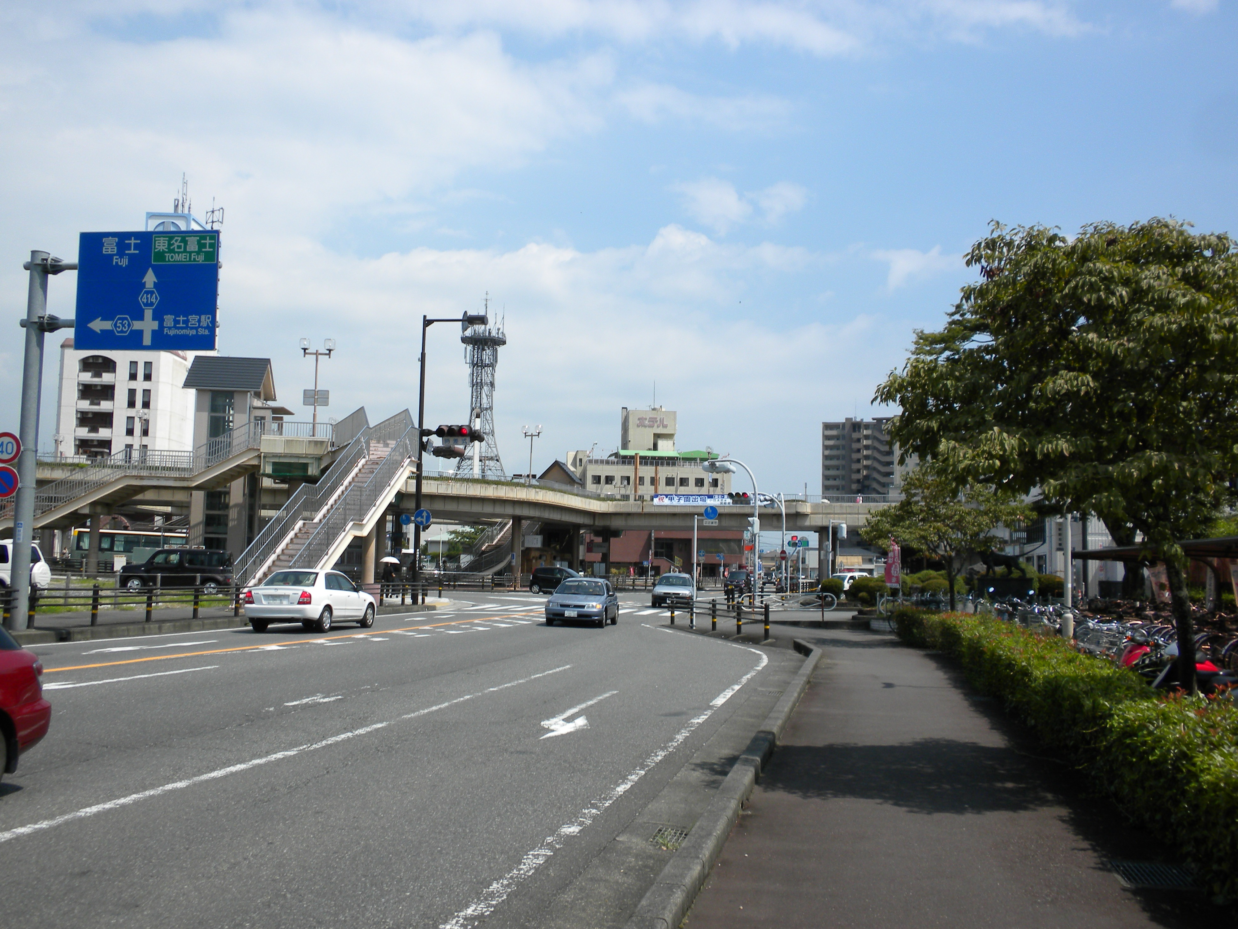 Around Fujinomiya Station